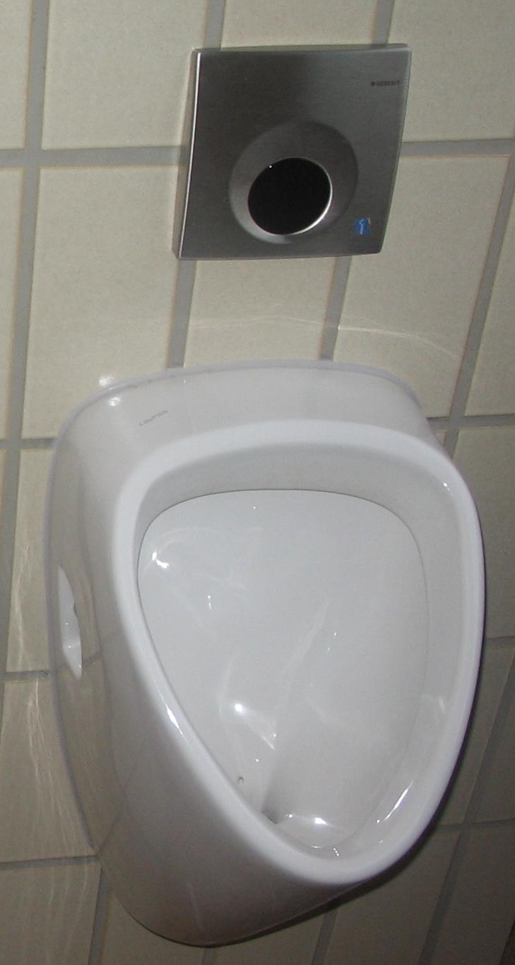 A urinal with a sensor starting the flush. Photo taken on December 18, 2006. Photo by User:Jarlhelm